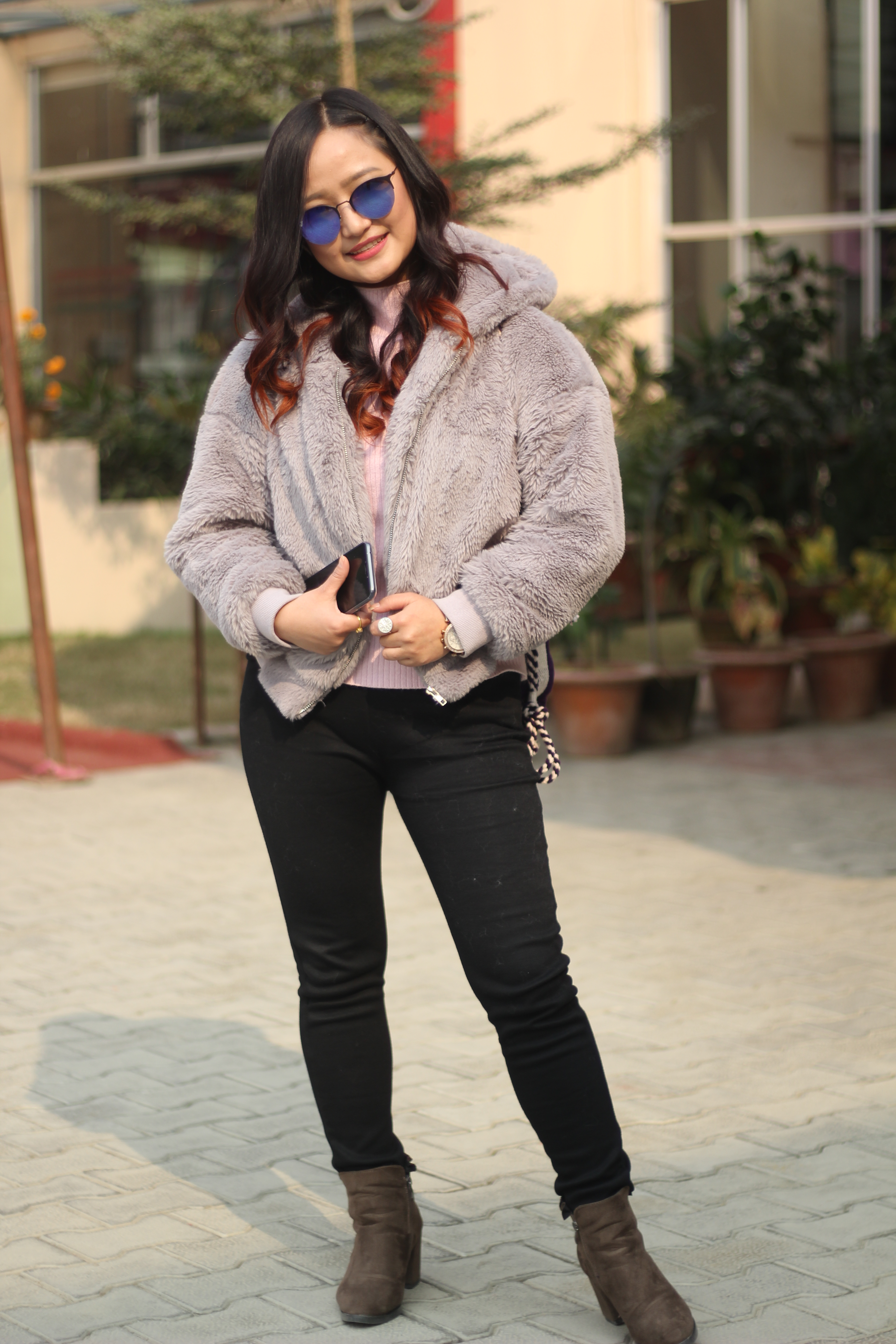 Melina Rai Singer